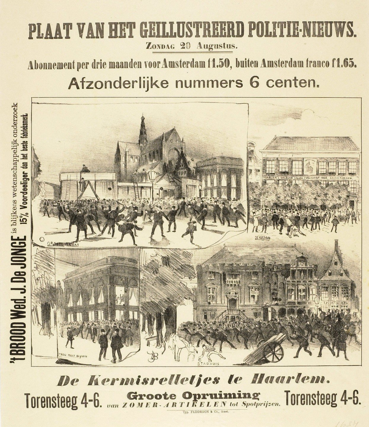 Kermisrelletjes in geïllustreerd politie-nieuws.